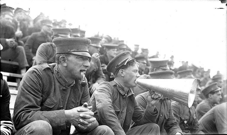 Spectators at the military athletic tournament, Alaska Yukon Pacific Exposition, Seattle, June 4, 1909. Photographer: Rognon, Orville J. Subjects (LCSH): Spectators--Washington (State)--Seattle Soldiers--Washington (State)--Seattle Alaska-Yukon-Pacific Exposition (1909 : Seattle, Wash.) Exhibitions--Washington (State)--Seattle Digital Collection: Alaska-Yukon-Pacific Exposition Collection Item Number: AYP333 Persistent URL: University of Washington Libraries. Digital Collections [#//content.lib.washington.edu%20